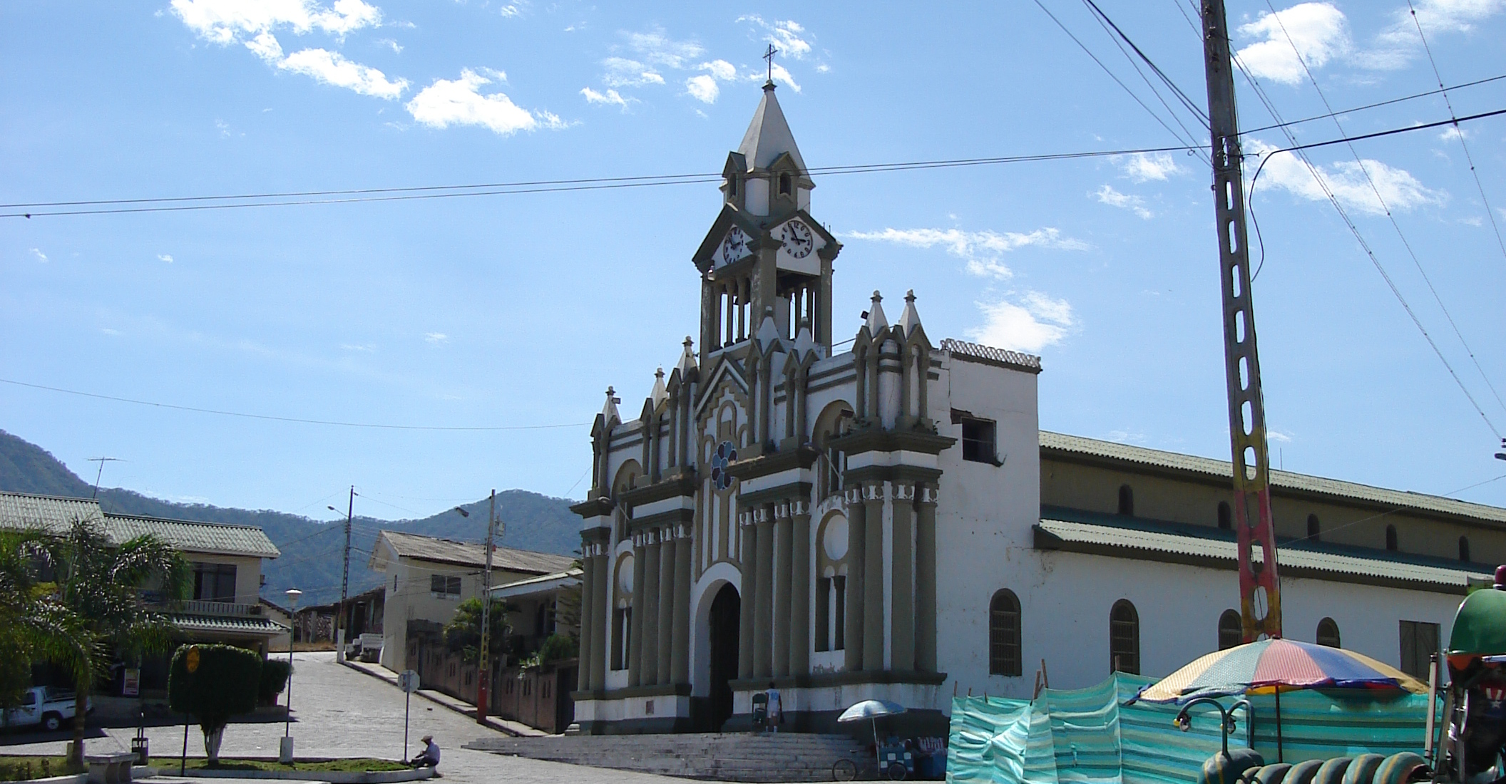 Macará, Loja Province, Equator.